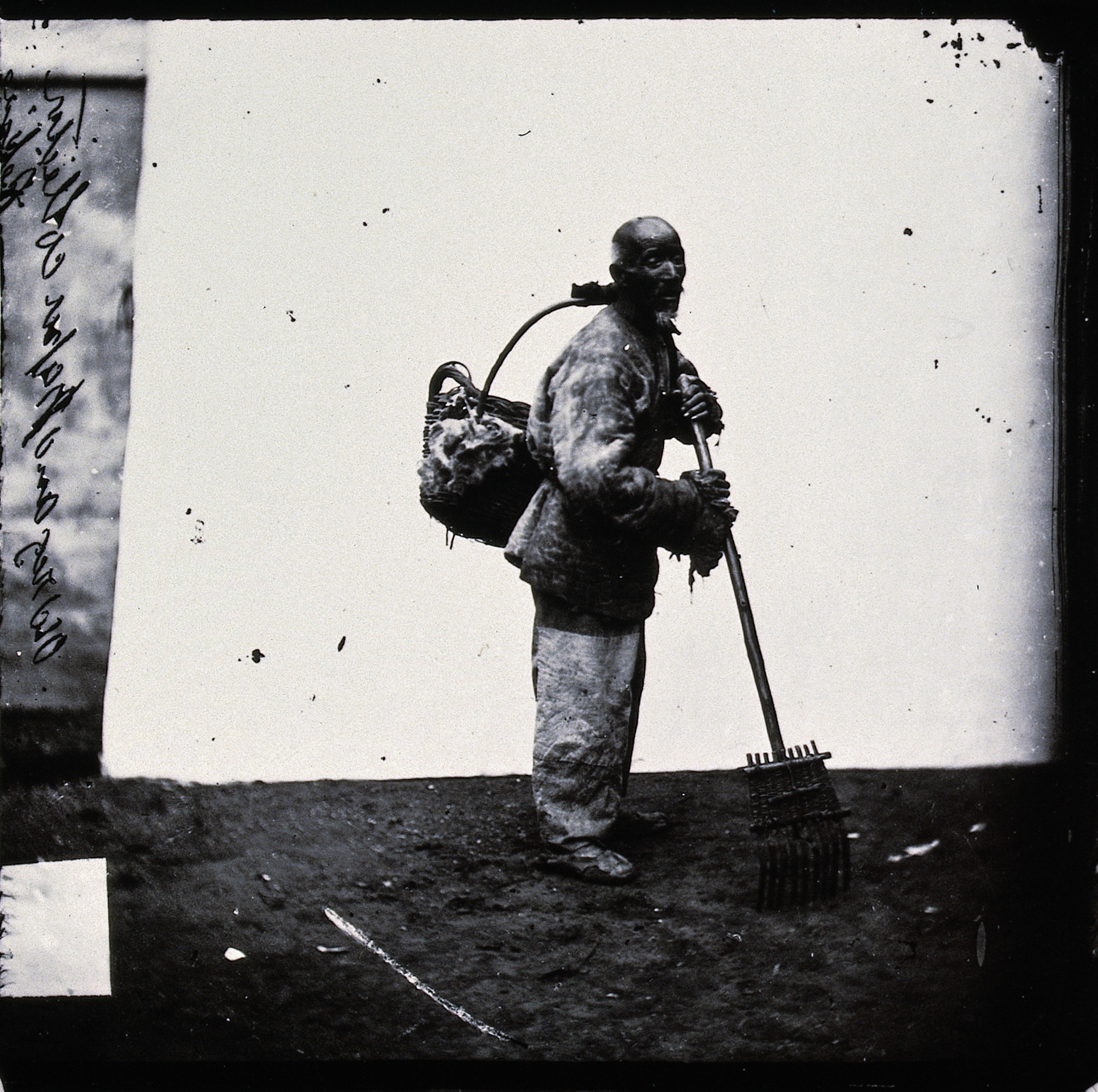 A literary agent, or collector of scrap pieces of paper for ceremonial burning, Peking, Pechili province, China Iconographic Collections Keywords: China; John Thomson